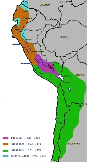 Map of the Inca Empire (unreferenced).